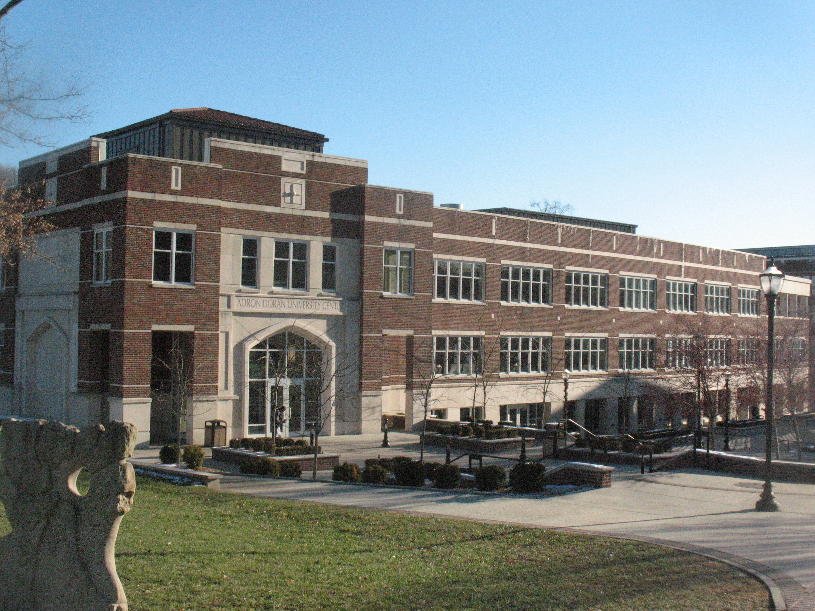 Exterior shot of Adron Doran University Center, located at Morehead State University in Morehead, Kentucky, USA.